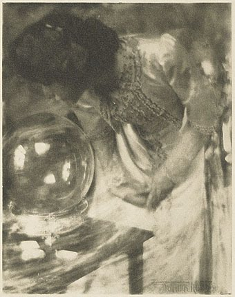 The_Christal_Gazer